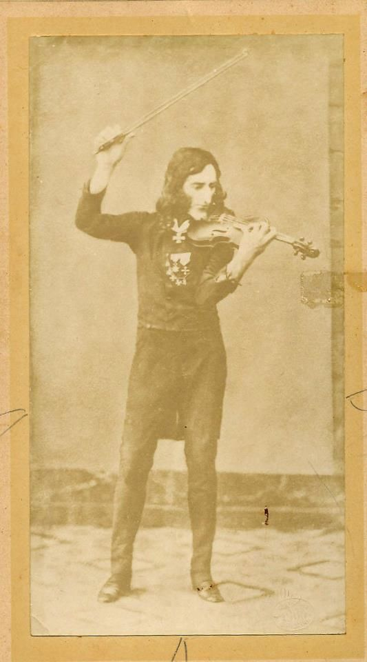 1900 Imperial Cabinet Card of Famous Fiorini Fake Daguerreotype (Photograph) of Violinist Niccolò Paganini